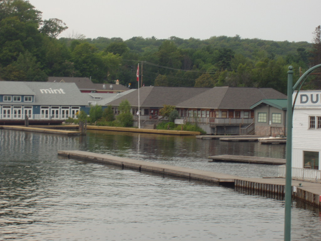 Looking south from the lift bridge into Steamboat Bay towards the shops and liquor store.